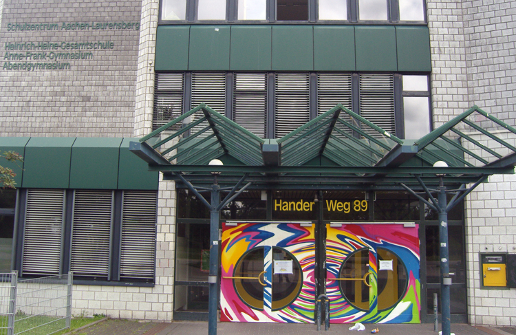 School center Aachen-Laurensberg, Anne-Frank-Gymnasium